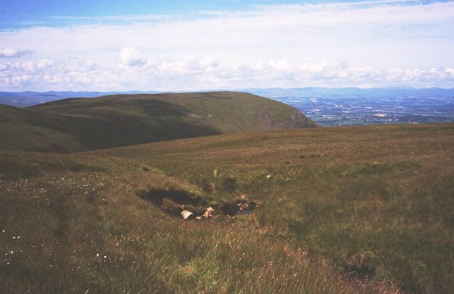 On Burton Fell. Undissected peatland. Looking over Swindale to Roman Fell and the Vale of Eden.